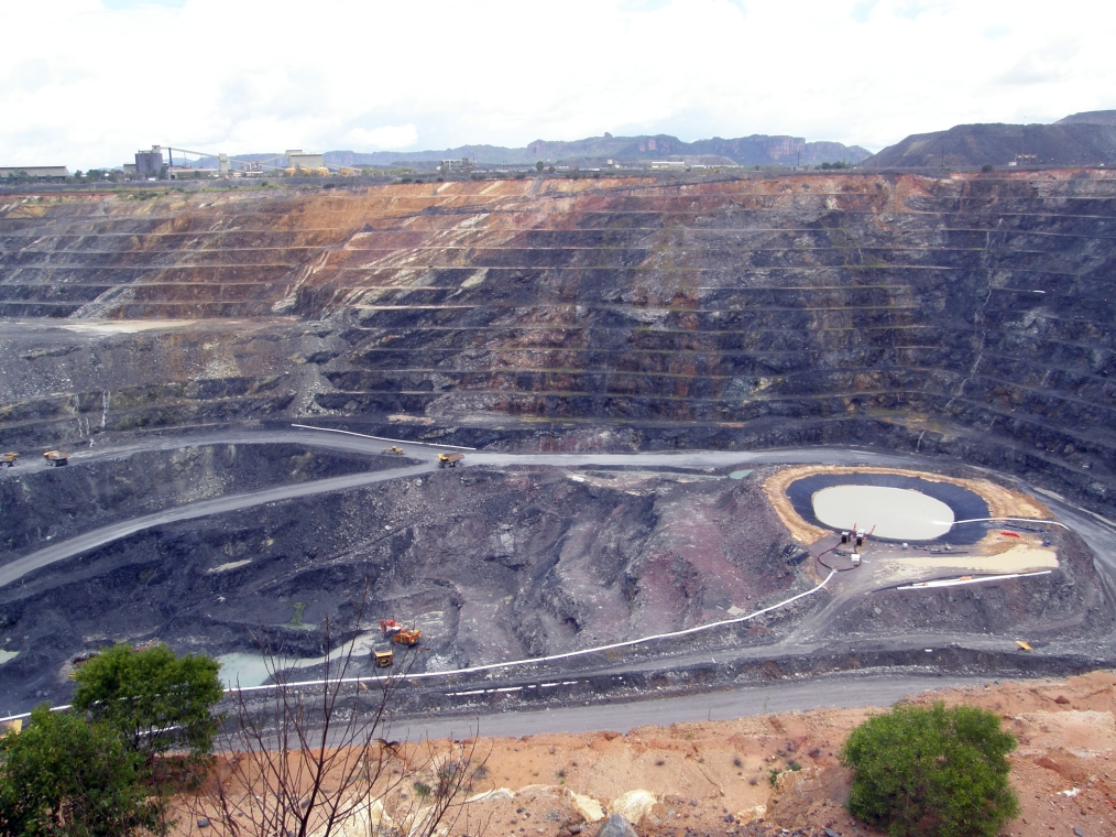 Ranger 3 open pit, Northern Territory, Australia: Ranger is an unconformity-related deposit. The mineralised Cahill Formation as seen in the pit is unconformably superimposed by Kombolgie sandstone as seen in the background.